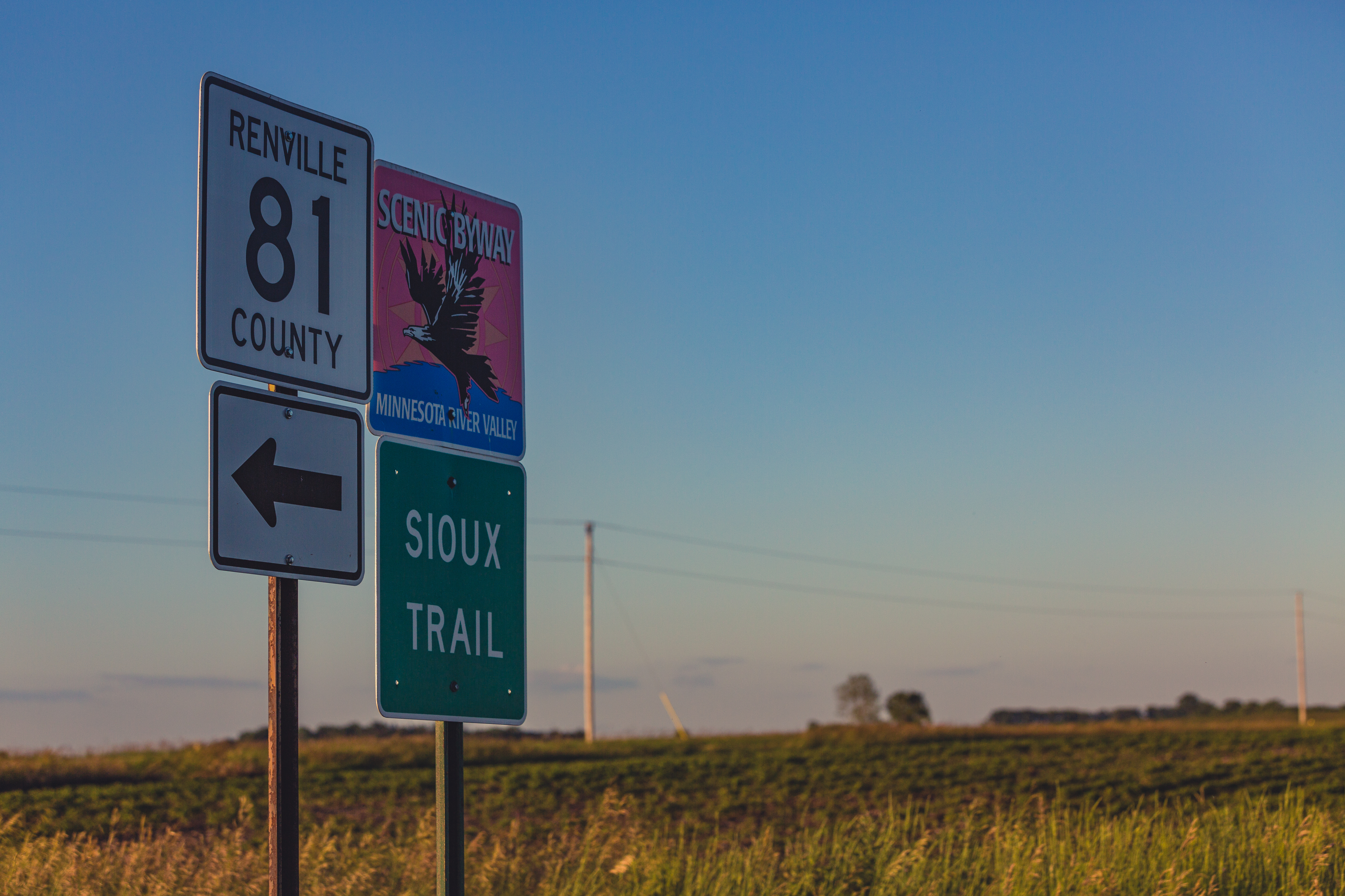 Sacred Heart, Minnesota